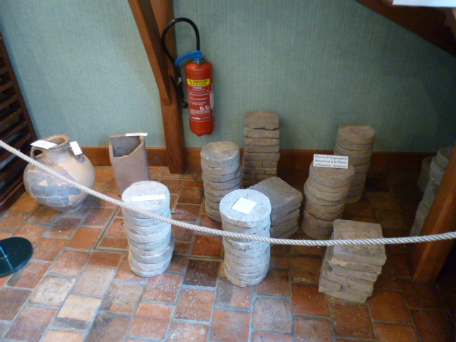 Saint-Maurice-sur-Aveyron, Loiret, France. Pilettes rondes et carrées qui formaient les colonnes de l'hypocauste (chambre de chauffe des thermes romains). Musée de l'Hôtel-Dieu, Châtillon-Coligny.